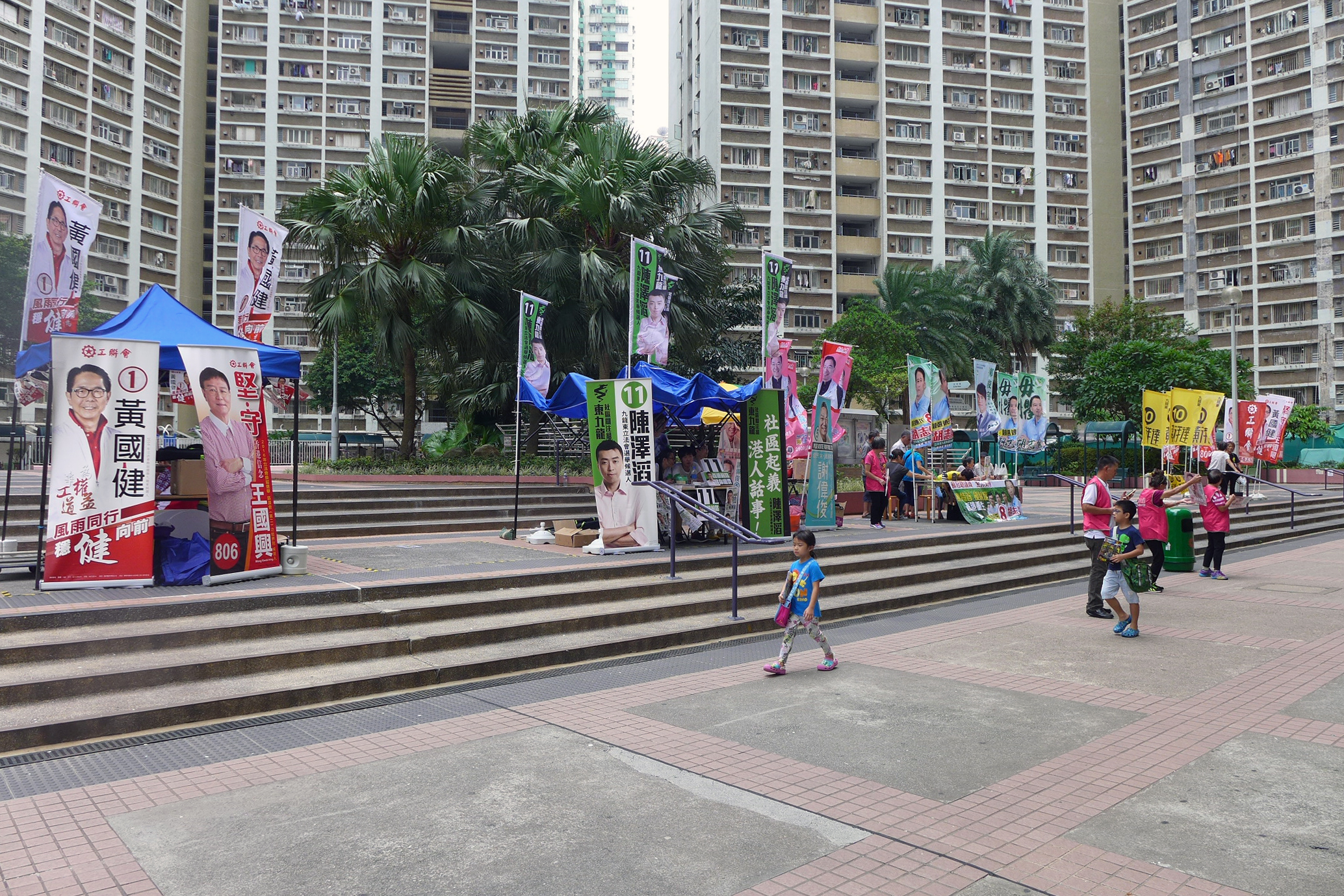 2016 Hong Kong legislative election KL East Lok Wah South Estate Promotion